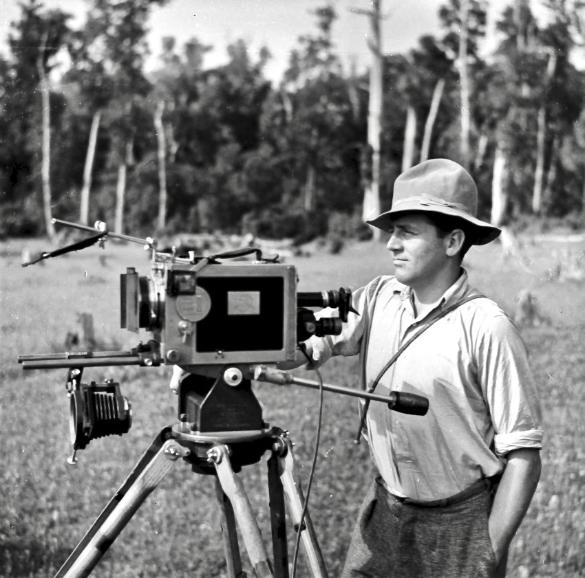 Arndt von Rautenfeld (1906–1996) in Chile during a shot for the German movie Ein Robinson by German moviemaker Arnold Fanck (1889–1974) using a Debrie Parvo camera.